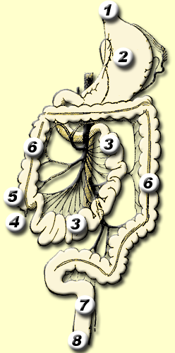 Gastro-intestinal tract – based on image 988 from online edition of Gray's Anatomy